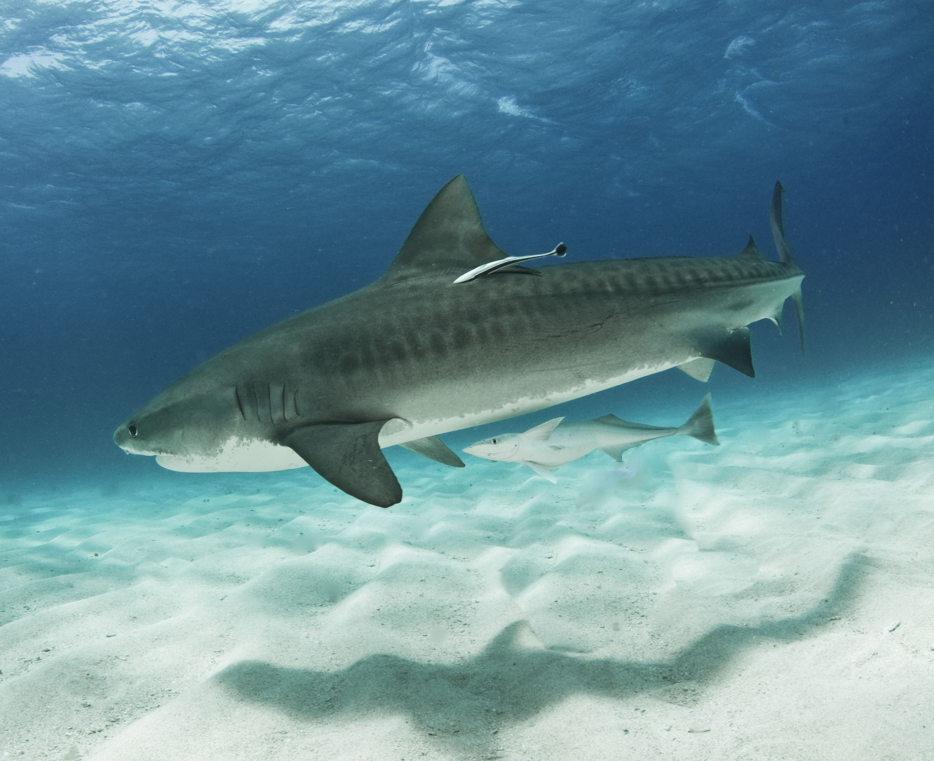 tiger shark